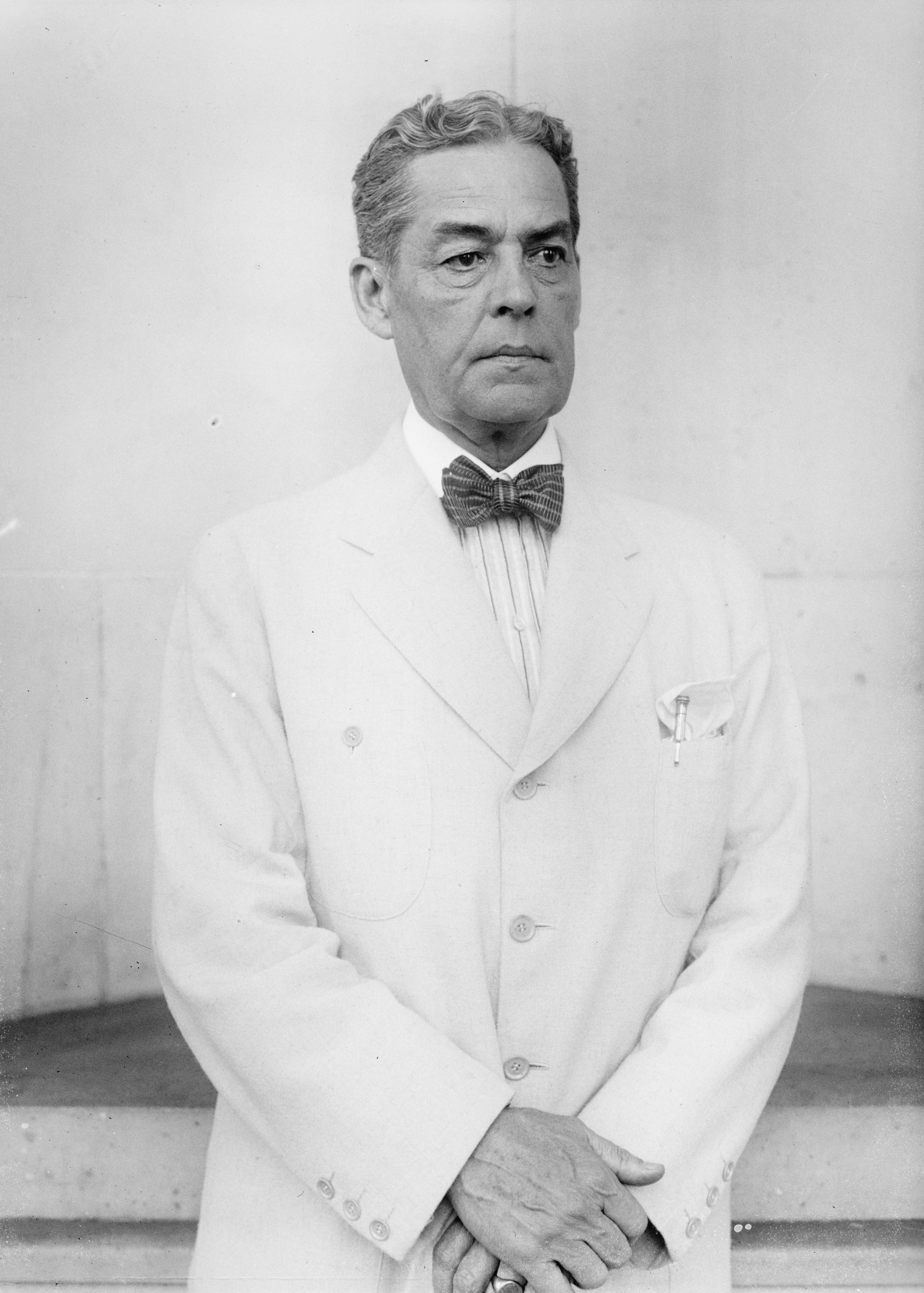 Title: Senator Robt. L. Owen Abstract/medium: 1 negative : glass ; 5 x 7 in. or smaller